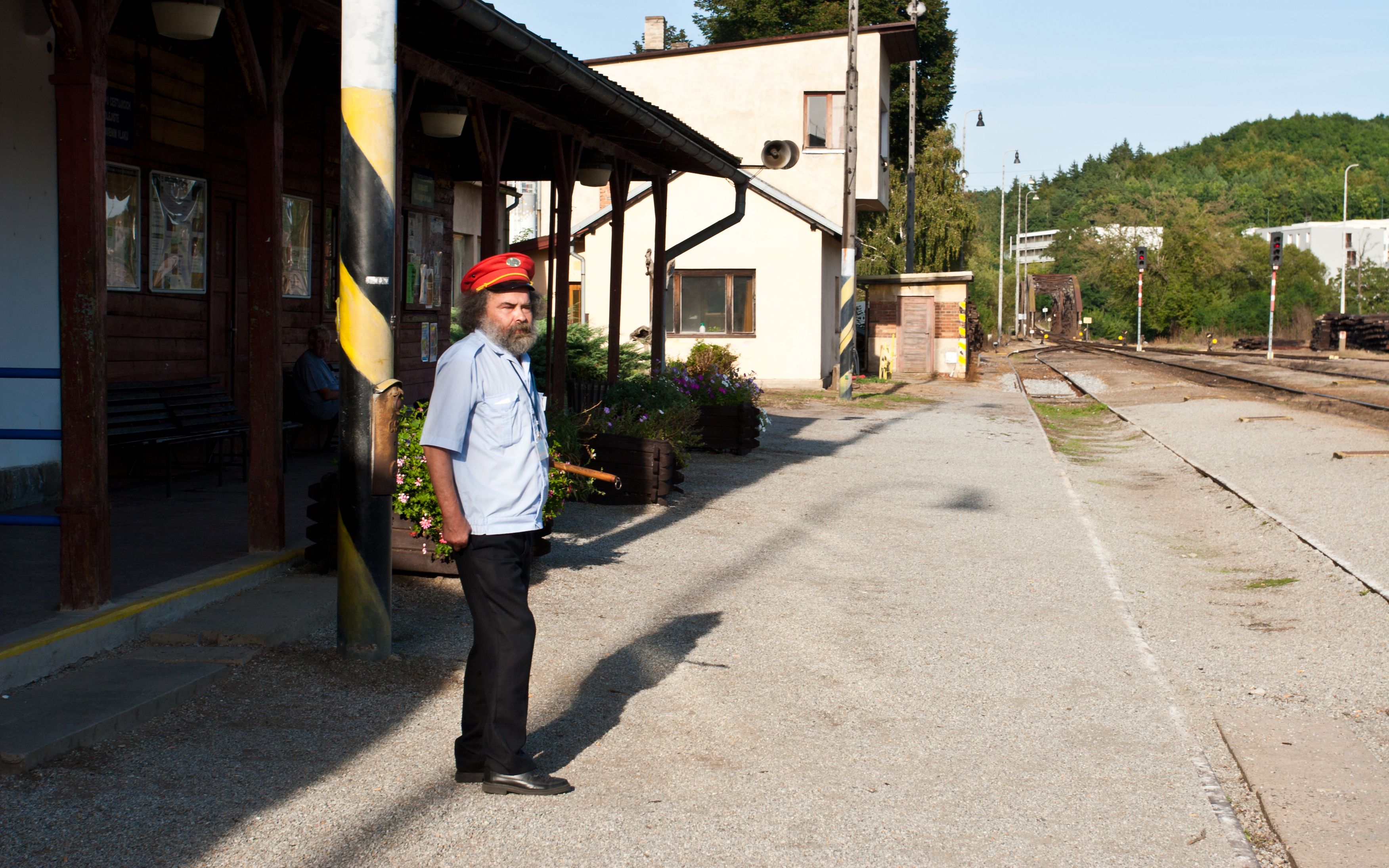 Rural Railroad Station